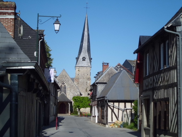 Moyaux (Normandy)